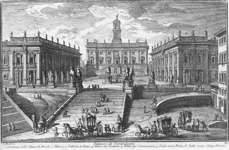 1) Steps leading to S. Maria in Aracoeli; 2) Palazzo Nuovo; 3) Palazzo Senatorio; 4) Palazzo dei Conservatori; 5) Ramp towards (the centre of) Rome; 6) Accesses from Campo Vaccino.